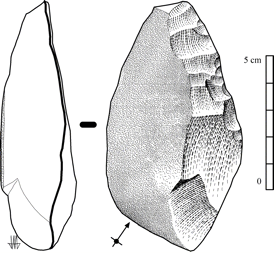 Acheulean racloir in quartzite from a superficial site in the Zamora province (Spain), in the Douro valley.